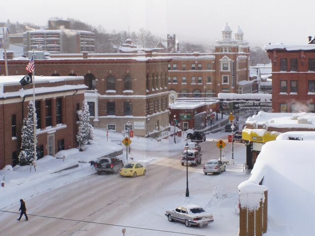 Winter view of the main street through Houghton, Michigan